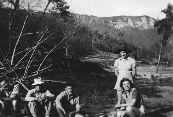 Photo by Diana Marmion Temple. See title